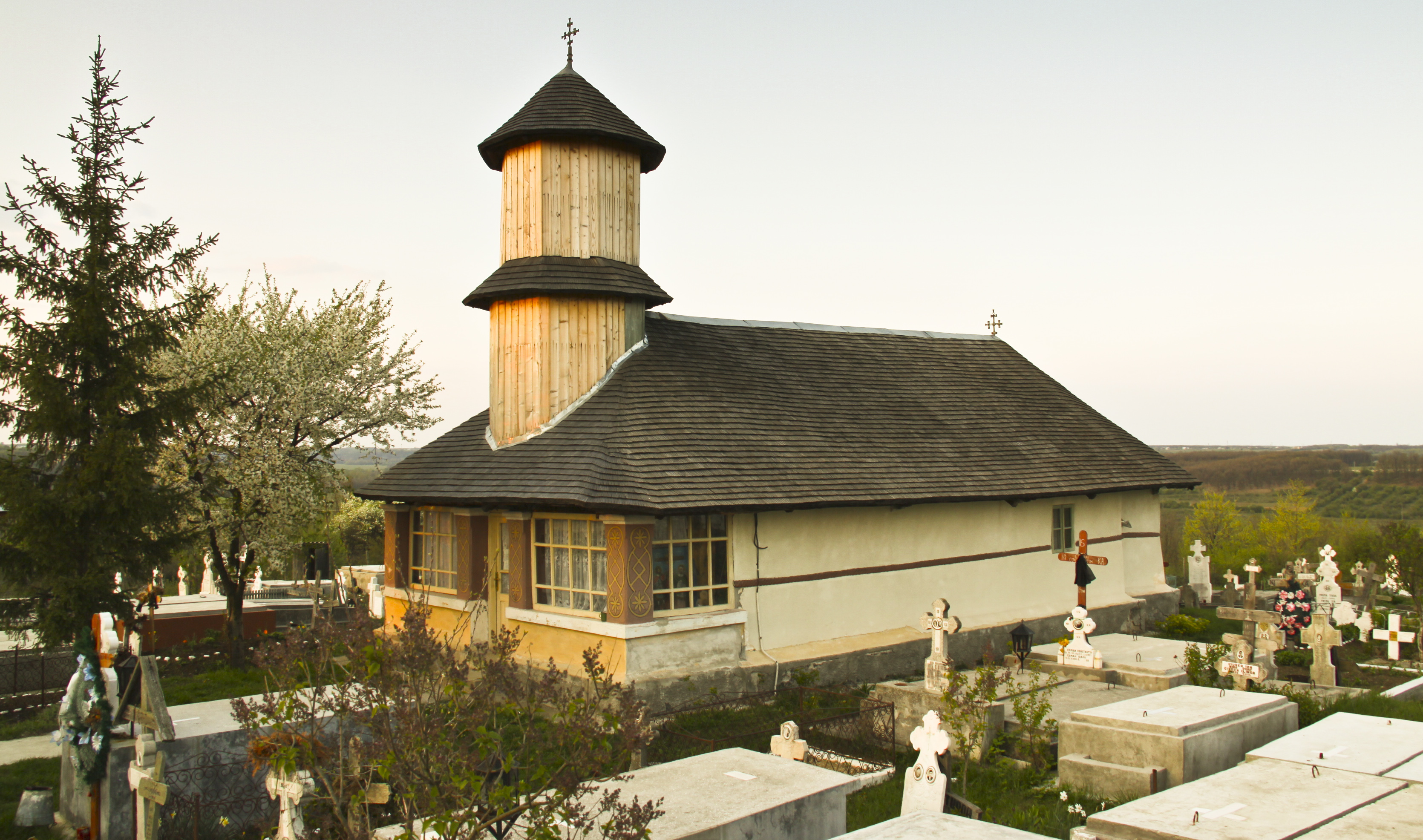 Alunişu-Cătănoi, Olt county, Romania: the wooden church.